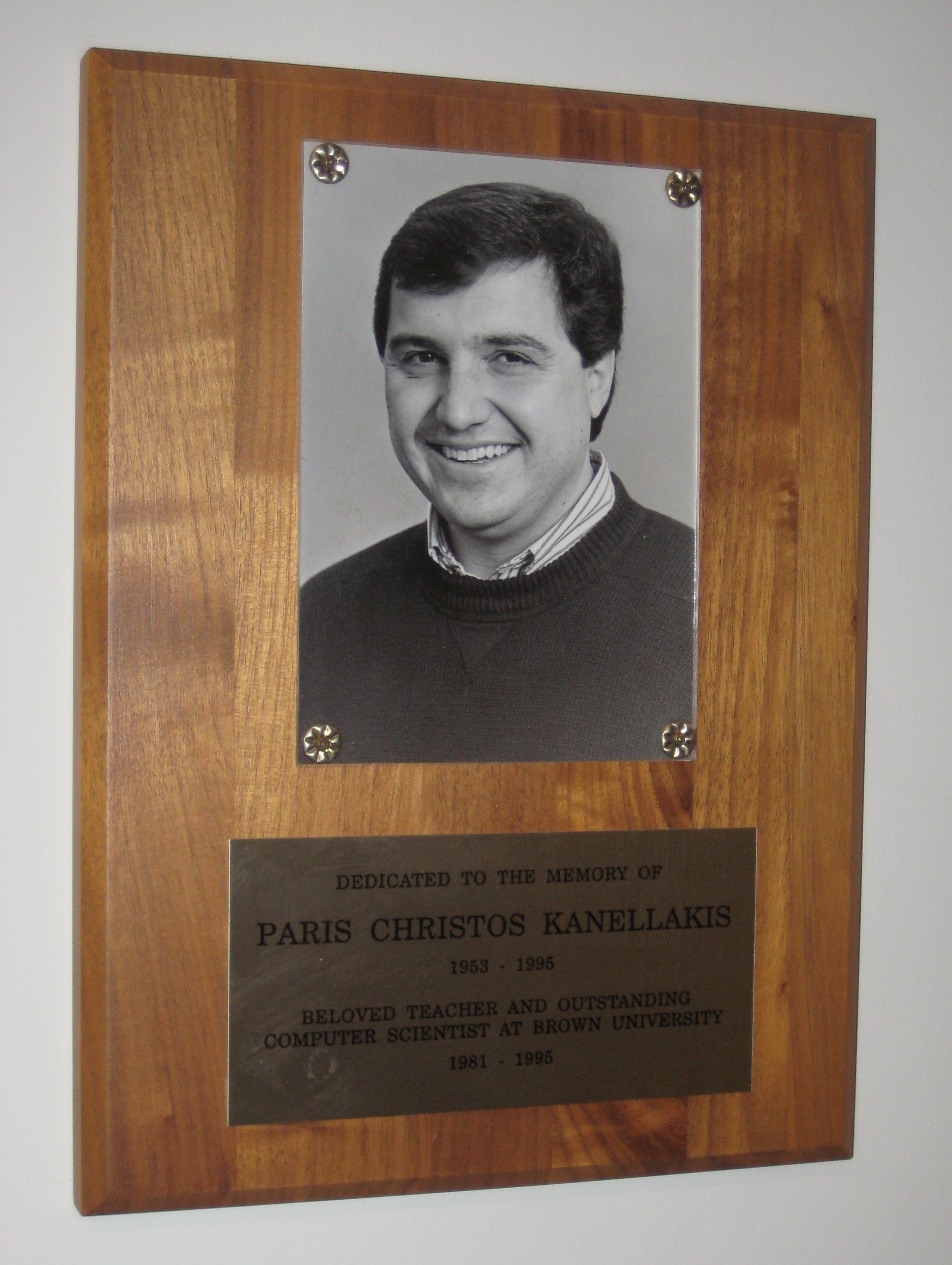 Photo of a plaque in memory of Paris C. Kanellakis in the library of the Computer Science Department at Brown University. Used in the Wikipedia page for Paris C. Kanellakis.